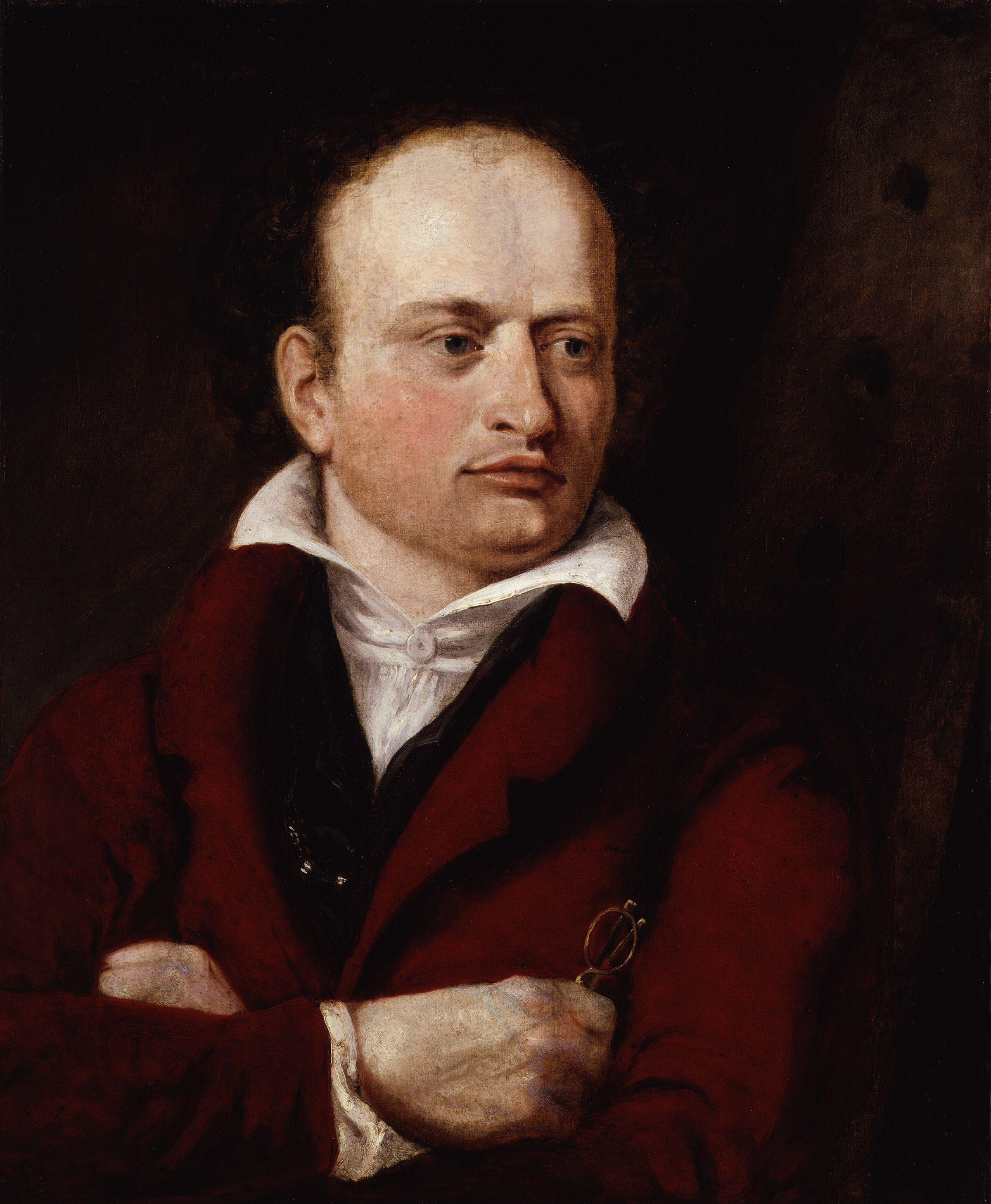 Benjamin Robert Haydon, by Georgiana Margaretta Zornlin (died 1881), given to the National Portrait Gallery, London in 1878. All images in this batch have been confirmed as author died before 1939 according to the official death date listed by the NPG.